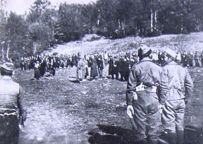 Forming of the battalion "Mirce Acev" August 22, 1943, on the Slavej Mountain. This media file is produced by Wikipedian in Residence in Category:Wikipedian in Residence at DARM in 2016.